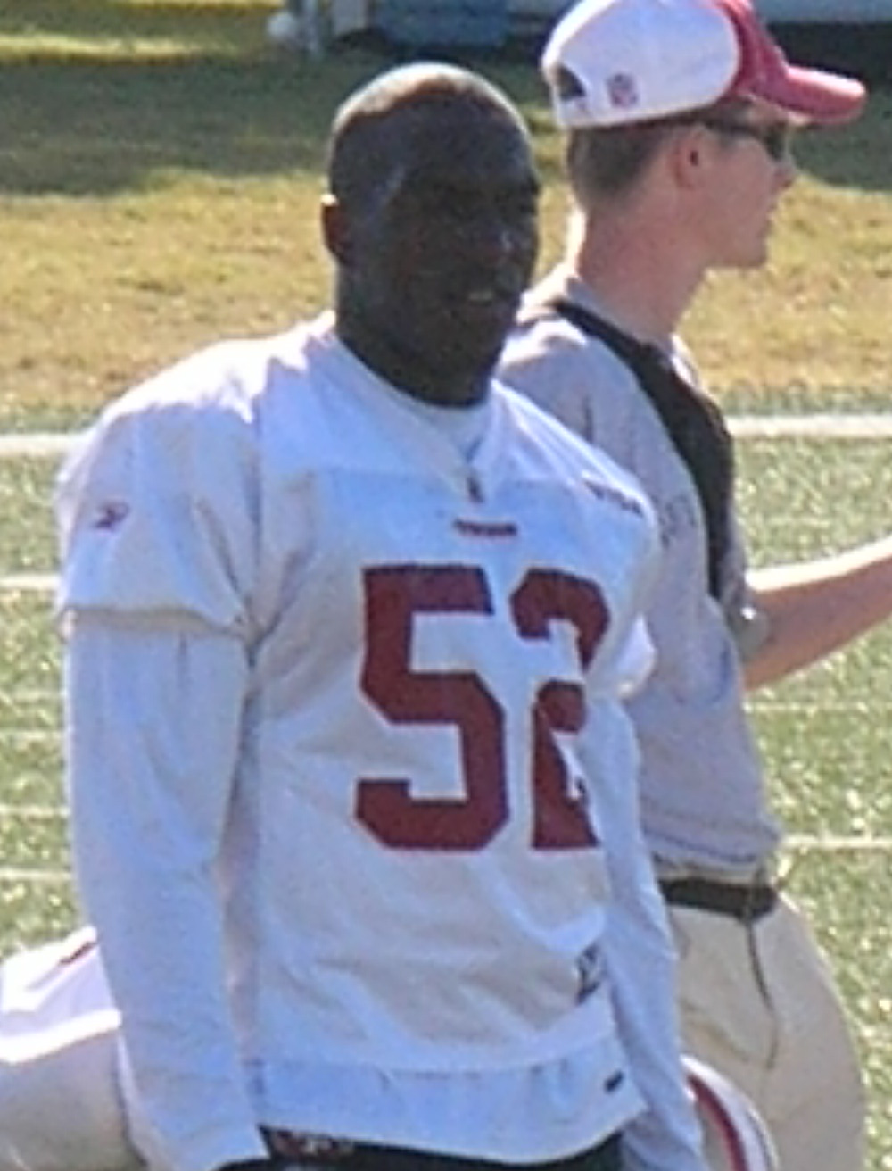 San Francisco 49ers linebacker Patrick Willis at training camp in Santa Clara, California.